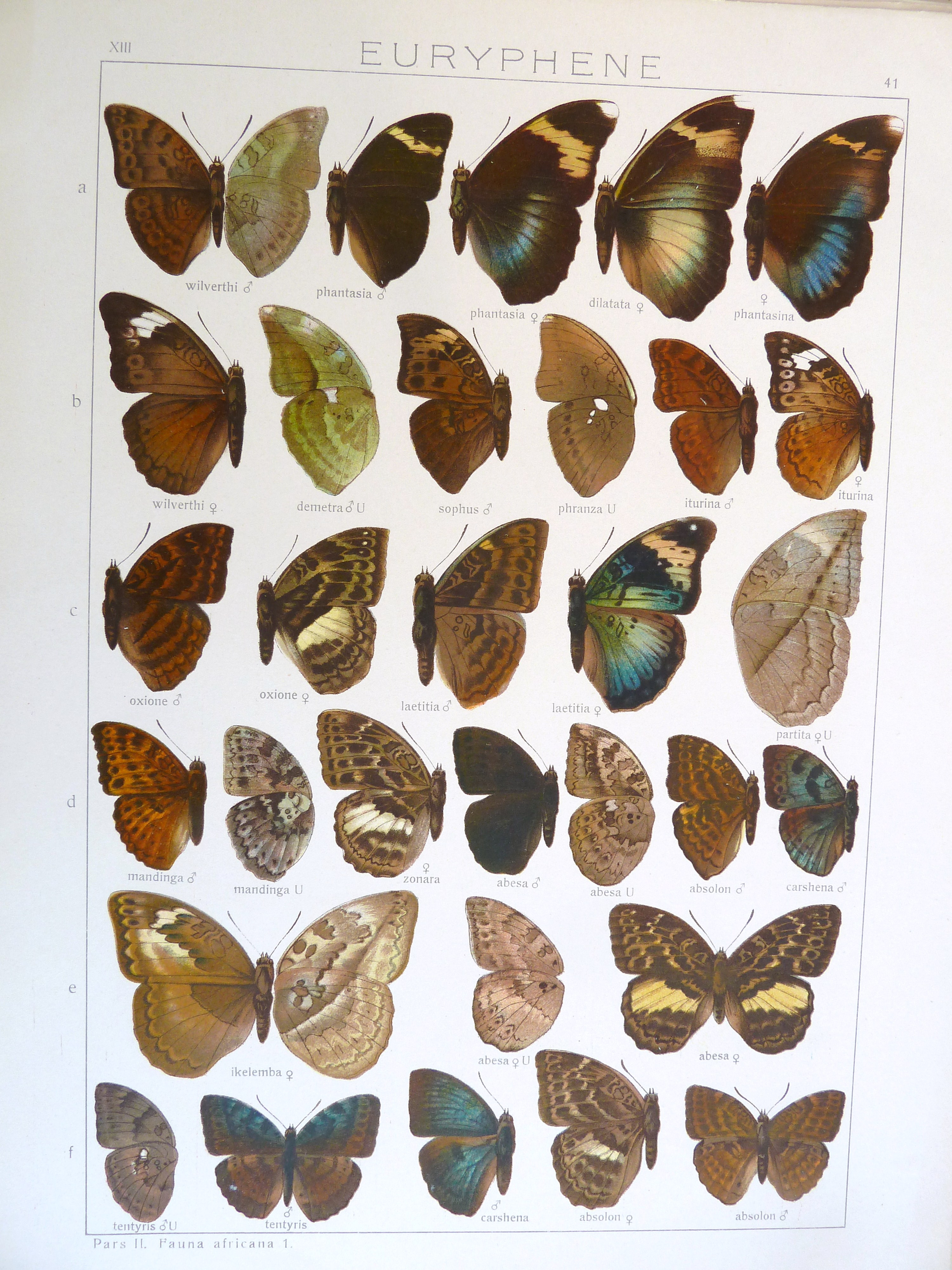 Adalbert Seitz Die Gross-Schmetterlinge der Erde 13: Die Afrikanischen Tagfalter. Plate XIII 41 a Bebearia aurora wilverthi (Aurivillius, 1898) ♂ Euriphene phantasia ♂ Euriphene phantasia ♀️ Euriphene phantasia dilatata Seitz ♀️ Bebearia phantasina ♀️ b Bebearia aurora wilverthi (Aurivillius, 1898) ♀️ Bebearia demetra ♂ U Bebearia sophus ♂ Bebearia phranza U Euryphene iturina Karsch, 1894, synonym for Bebearia brunhilda (Kirby, 1889) ♂ Euryphene iturina Karsch, 1894, synonym for Bebearia brunhilda (Kirby, 1889) ♀️ c Bebearia oxione ♂ Bebearia oxione ♀️ Bebearia laetitia ♂ Bebearia laetitia ♀️ Bebearia partita ♀️ U d Bebearia mandinga ♂ Bebearia mandinga U Bebearia zonara ♀️ Bebearia abesa ♂ Bebearia abesa U Bebearia absolon ♂ Bebearia carshena ♂ e Bebearia ikelemba ♀️ Bebearia abesa ♀️ U Bebearia abesa ♀️ f Bebearia tentyris ♂ U Bebearia tentyris ♂ Bebearia carshena ♂ Bebearia absolon ♀️ Bebearia absolon ♂